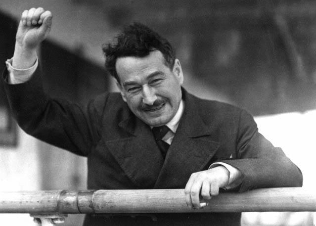 Egon Kisch aboard the Strathaird Melbourne's Station Pier November 1934